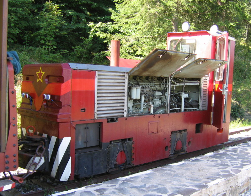 Narrow gauge diesel locomotive DH 100